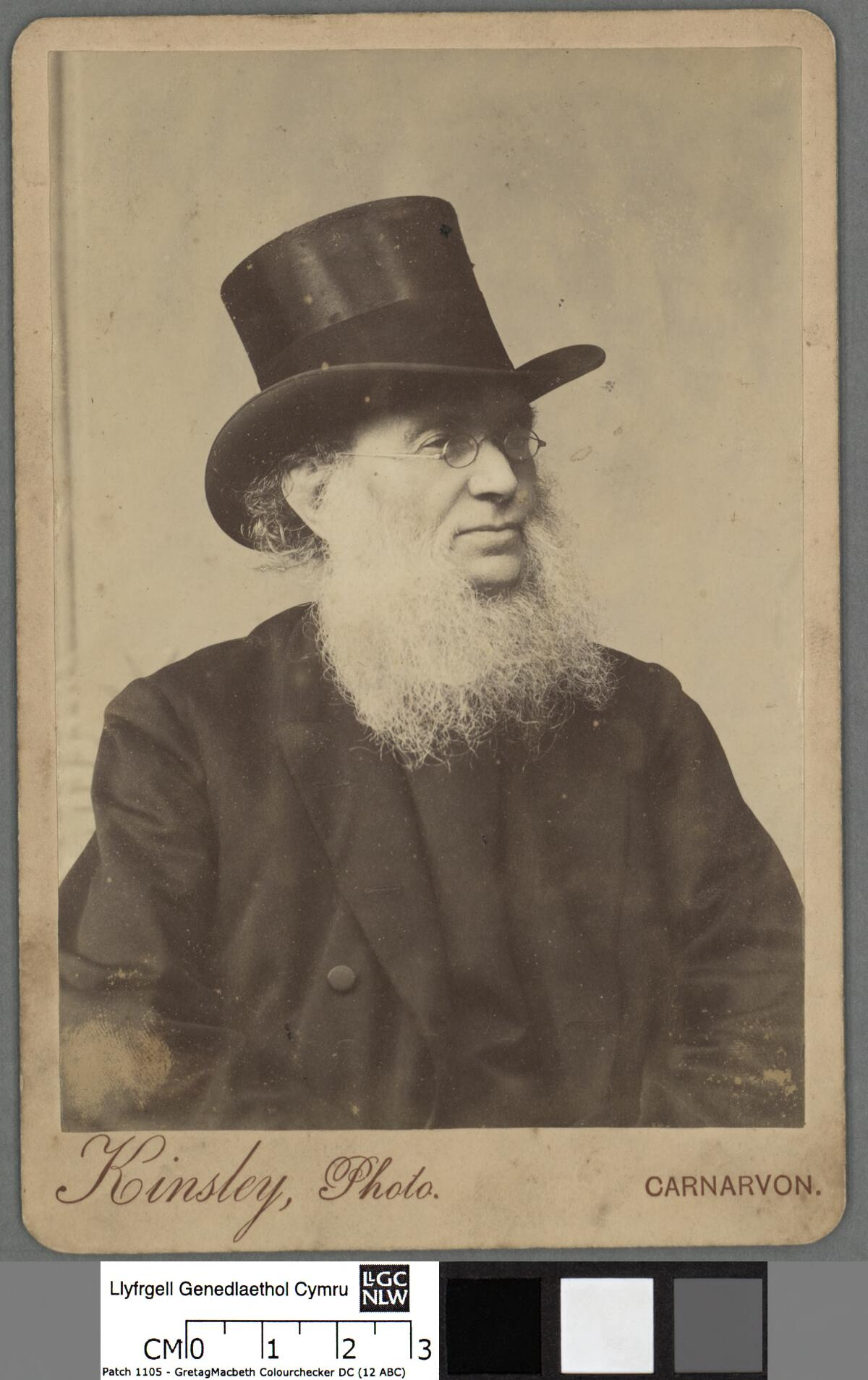 A portrait from the Welsh Portrait Collection at the National Library of Wales. Depicted person: David Roberts – Welsh Independent minister